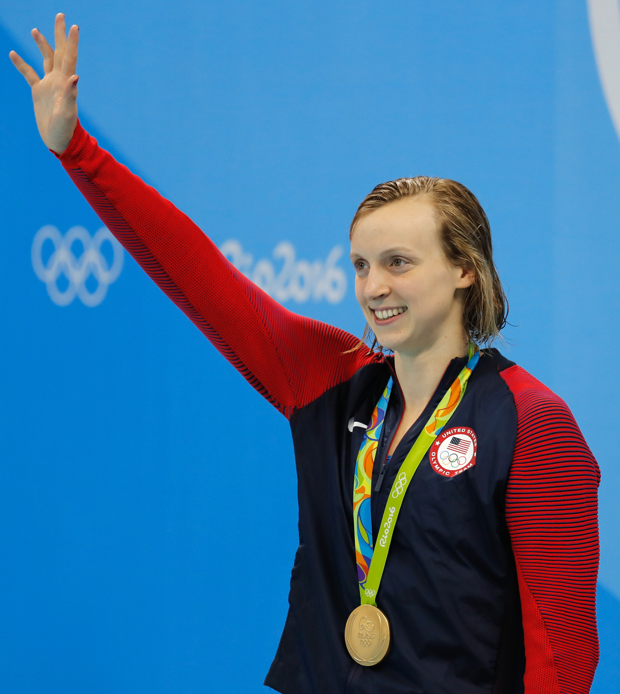 Rio de Janeiro - Nadadora norte-americana Katie Ledecky bate recorde mundial e leva medalha de ouro nos 400m livre nos Jogos Olímpicos Rio 2016, no Estádio Aquático.